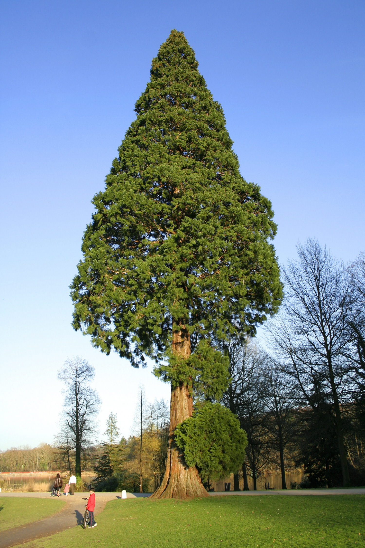 Giant Sequioa (Sequoiadendron giganteum).